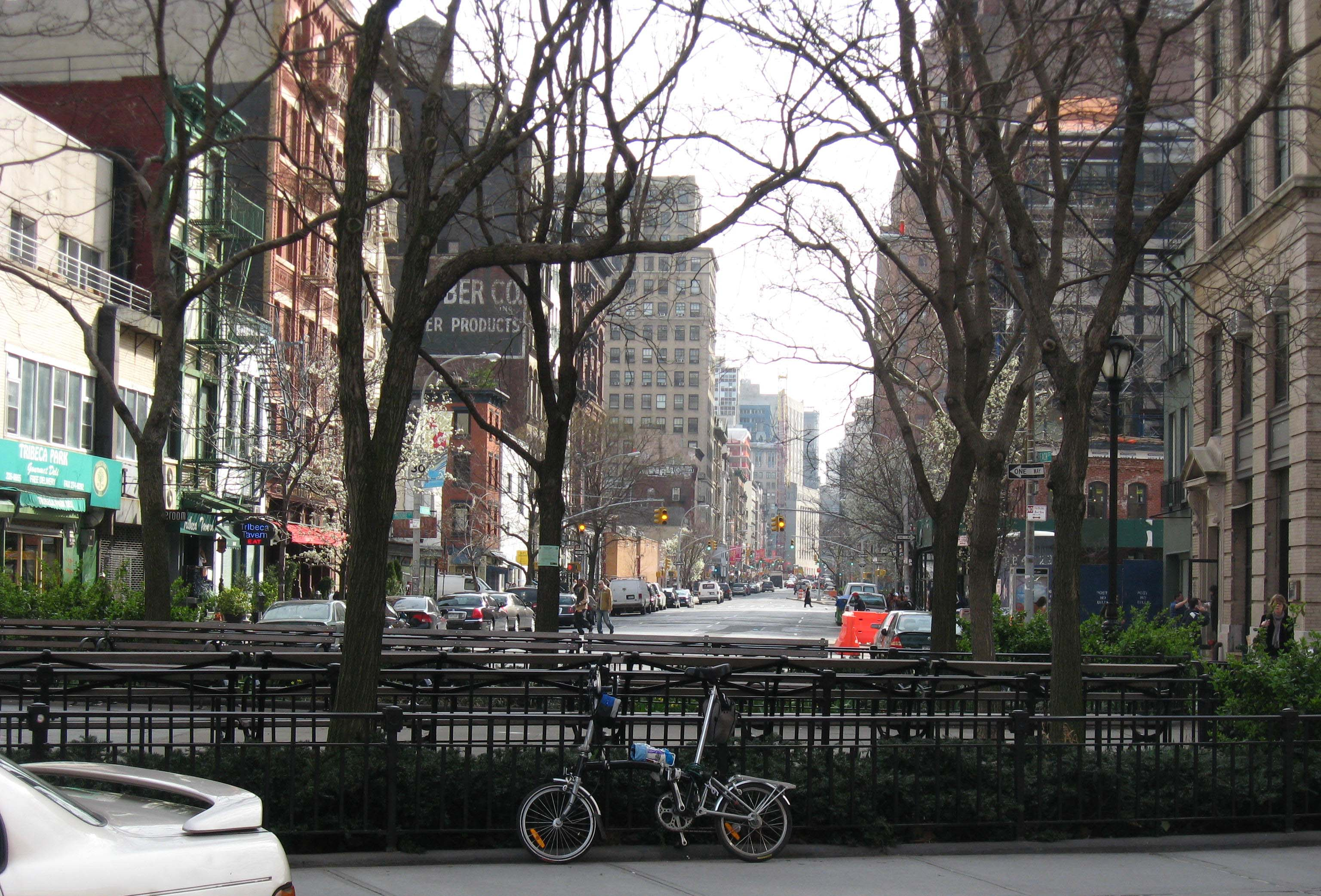 Looking south at Tribeca Park and West Broadway (Manhattan) on a sunny afternoon. WBwy lies about a quarter mile (300 meters) west of Broadway. See File:American Thread Wbwy jeh.JPG for the view northward.